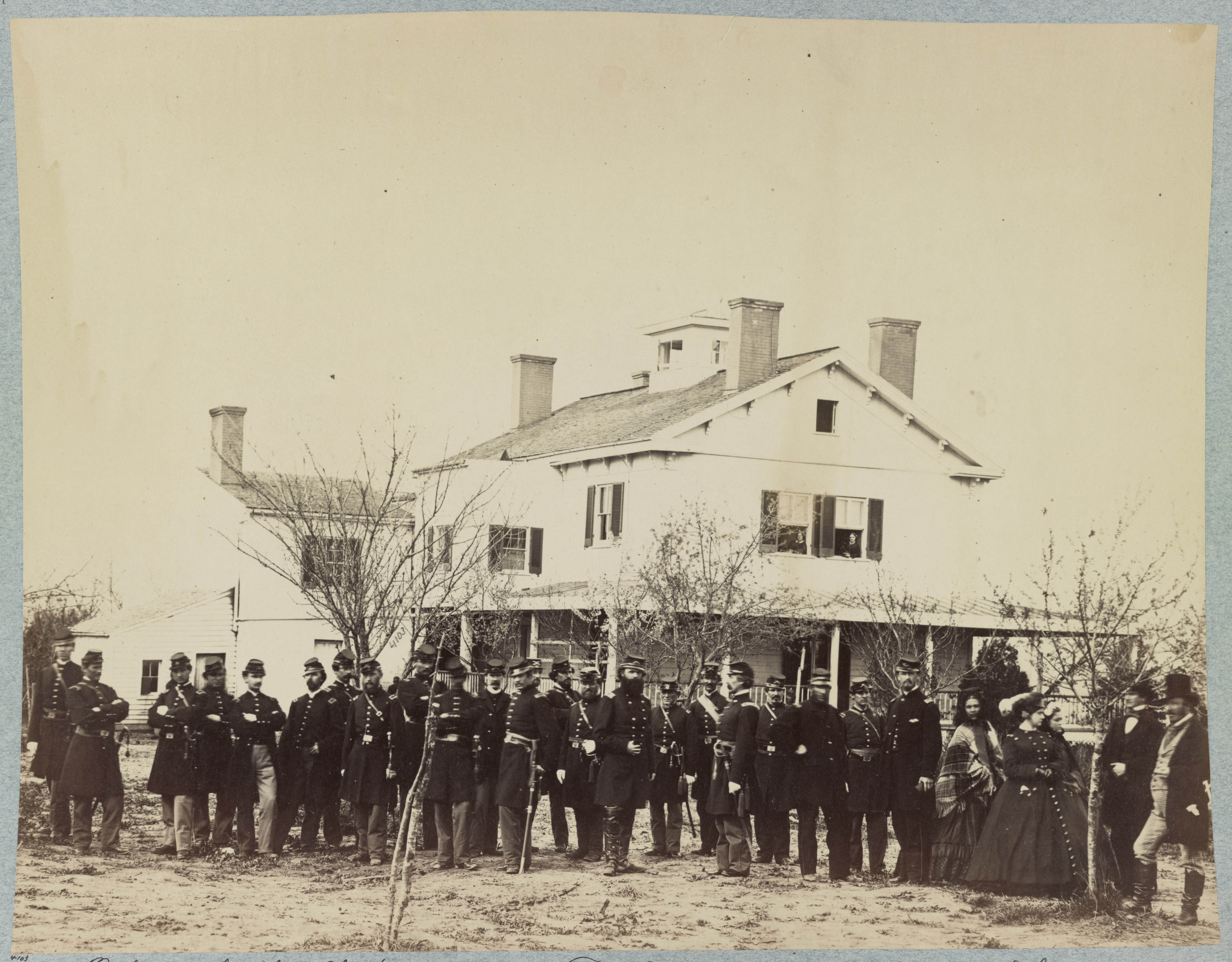 Title: Officers of 4th N.Y. Heavy Art'y. (i.e. Artillery), Fort Corcoran, near Washington, D.C., 1862 Physical description: 1 photographic print on card mount : albumen. Notes: No. 4103.; Gift; Col. Godwin Ordway; 1948.; Title from item.